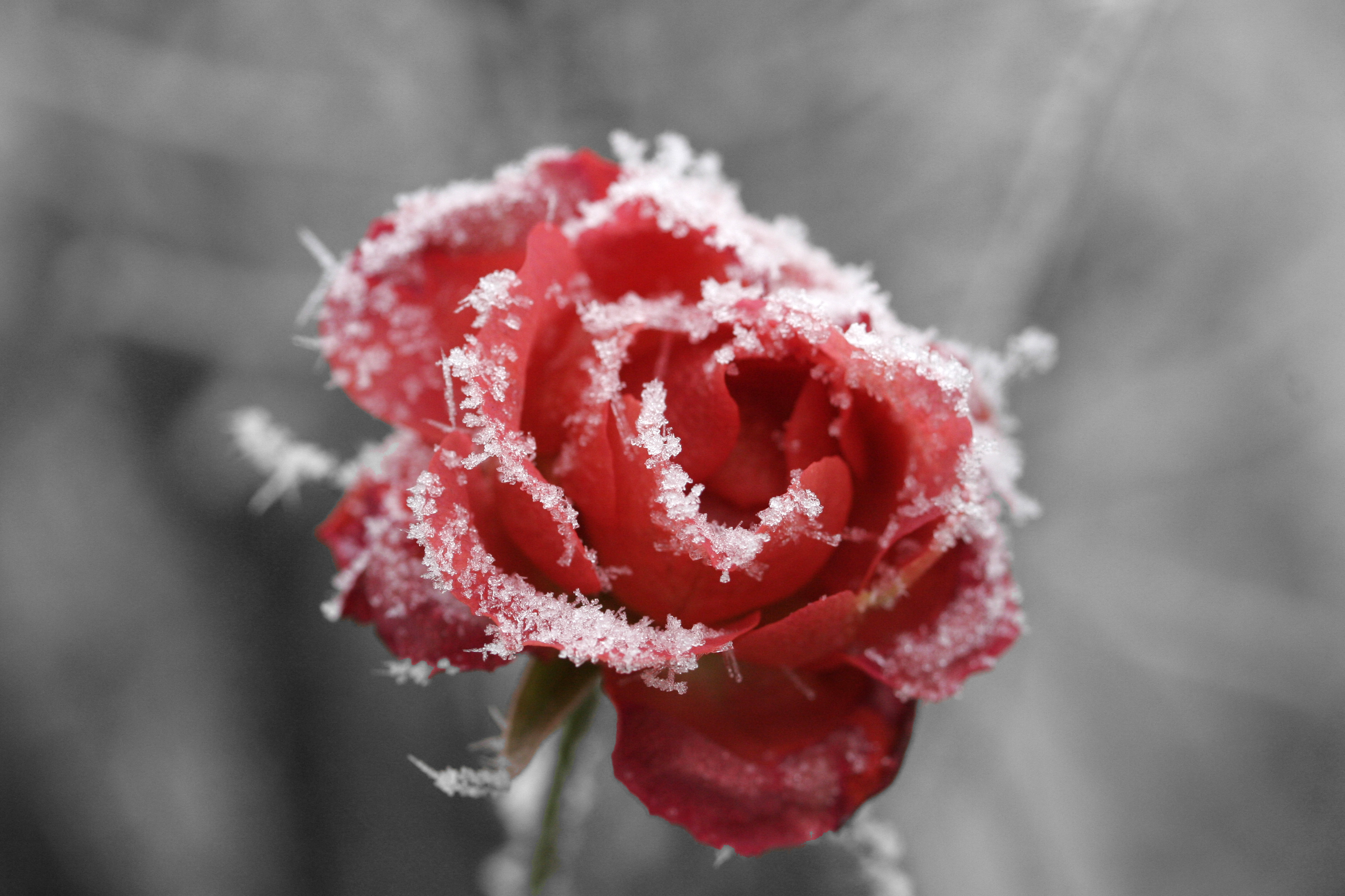 Frosted rose